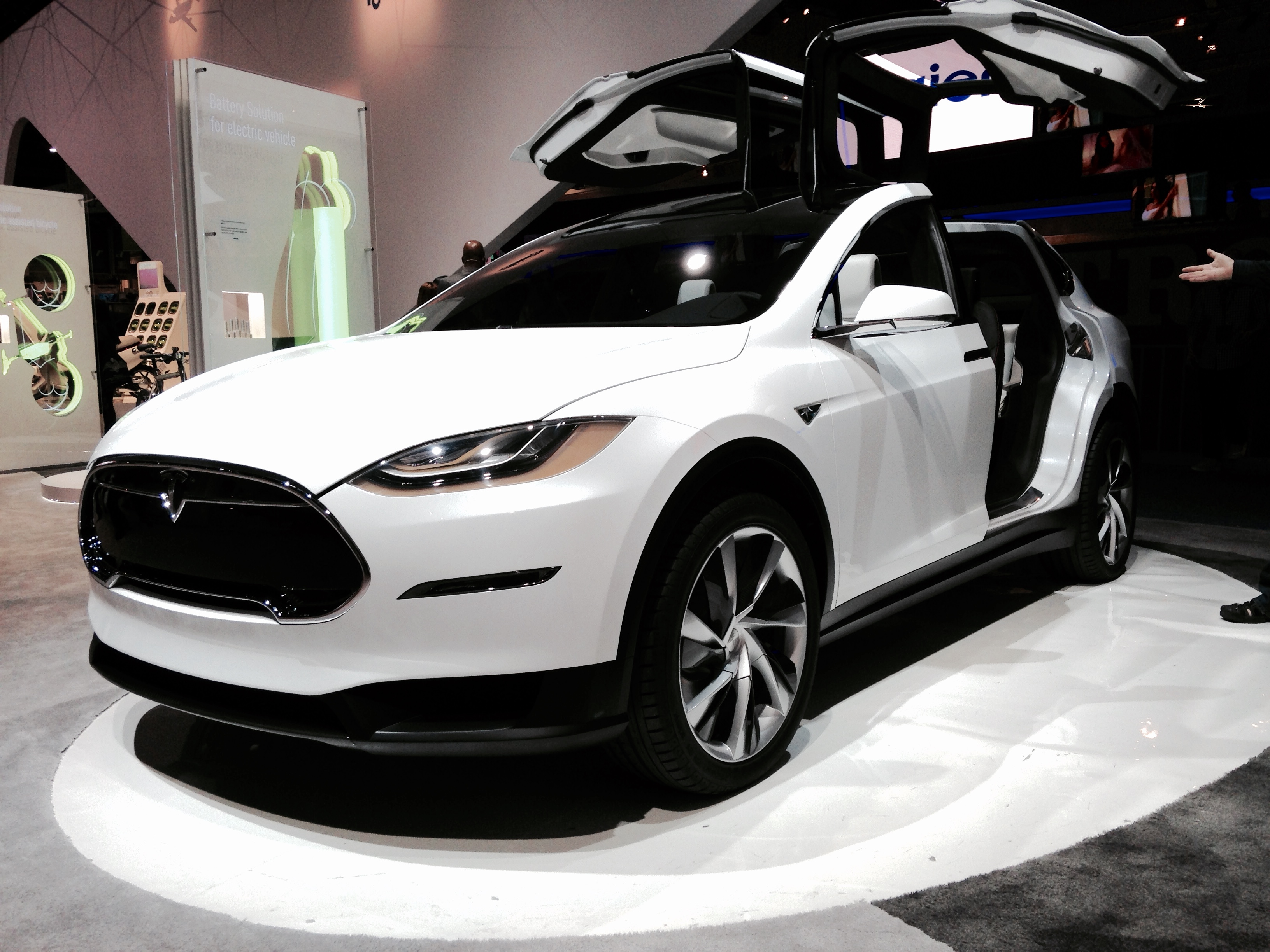 Tesla Model X at CES. The Model X is the crossover utility vehicle coming out in September 2015.